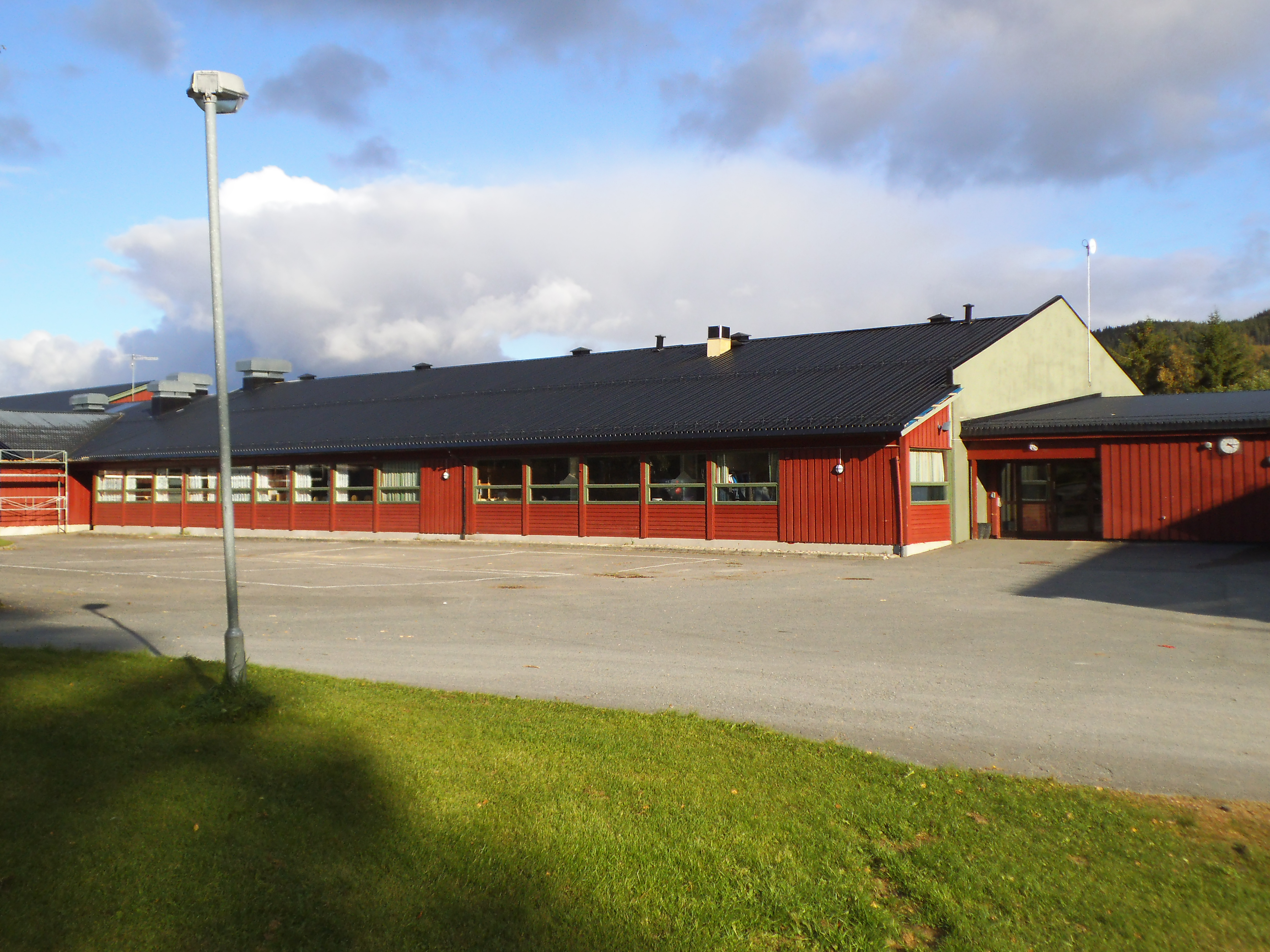 Hovedinngangen på ungdomskolen (junior high).